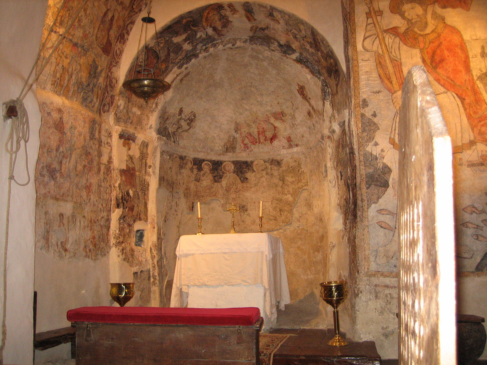 Interior of Saint Christopher's Church, Anyós, La Massana, Andorra